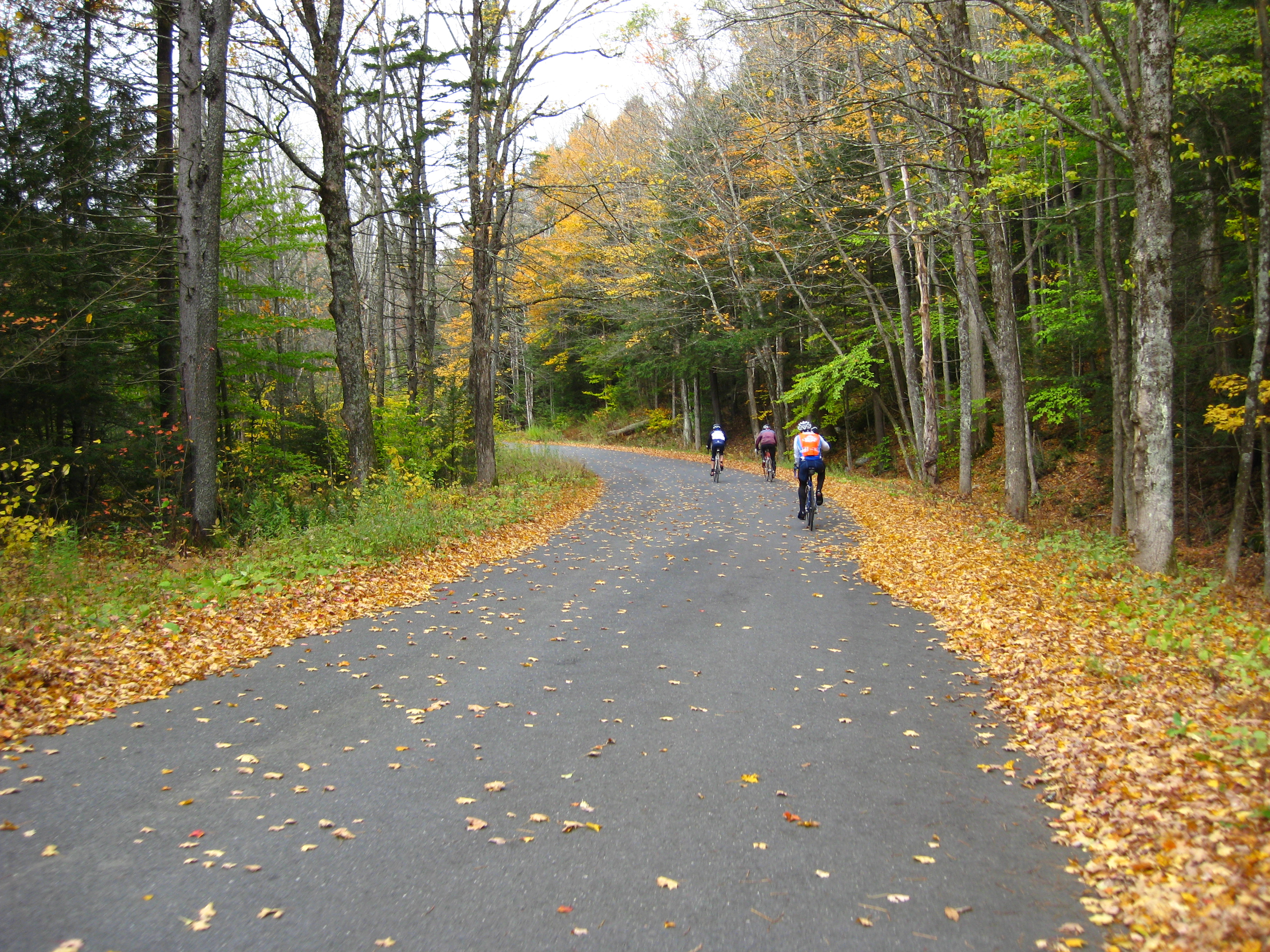 The foliage was past peak here.